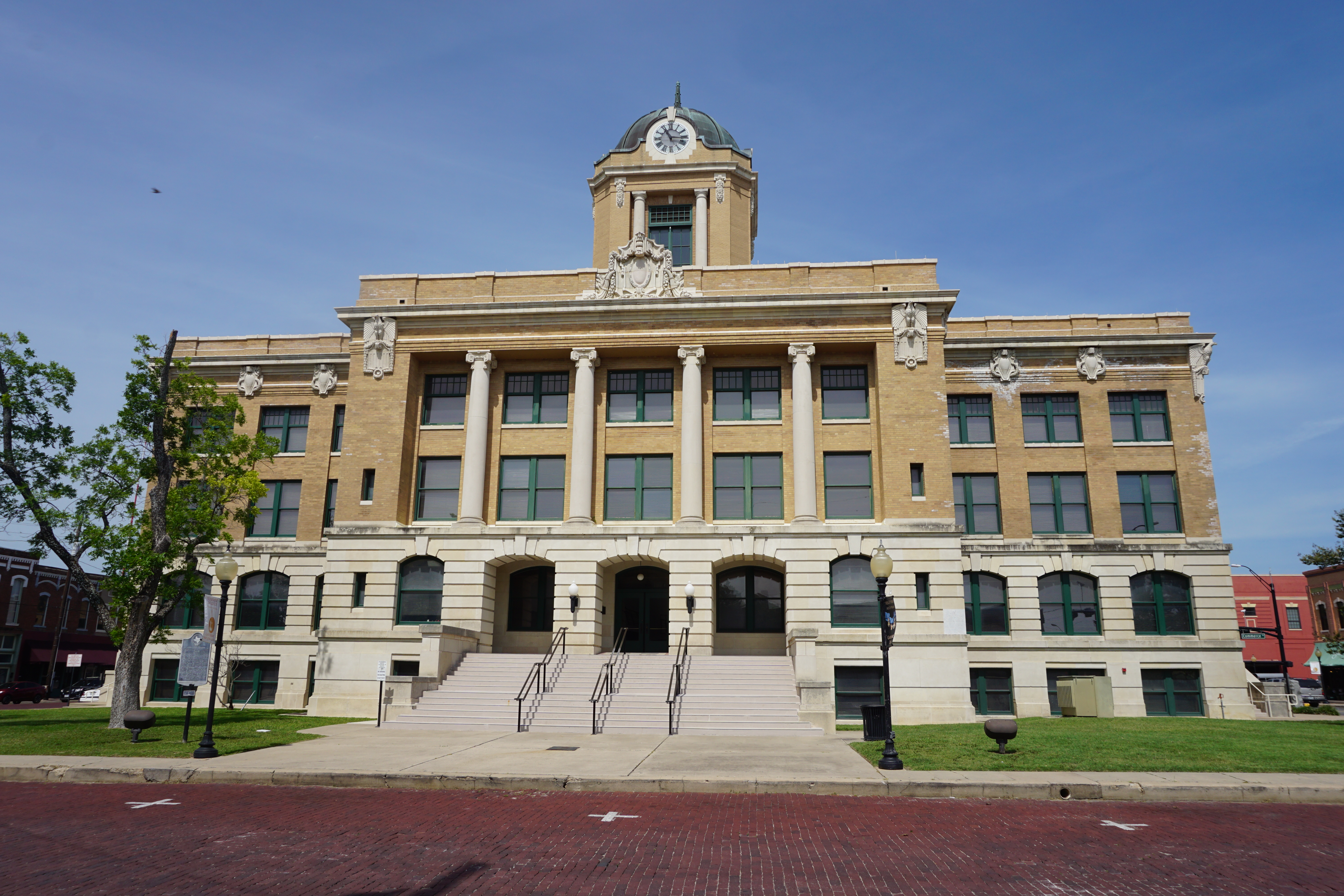 The Cooke County Courthouse in Gainesville, Texas (United States).